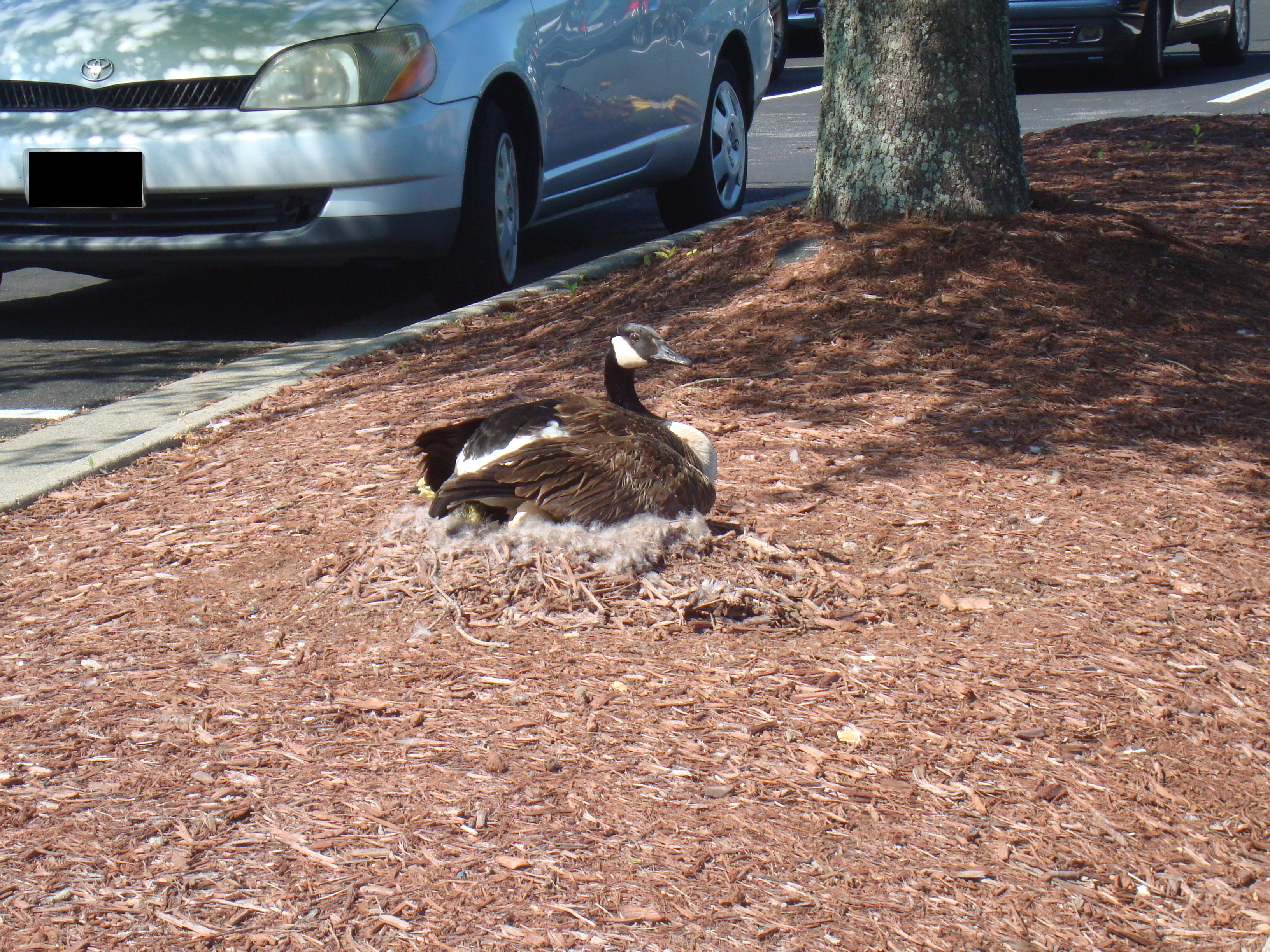 Mother Canada Goose on her nest of eggs in a parking lot. Parts of two eggs can be seen under her near her rump. The two parking spots on either side of her nest were marked off with traffic cones so she would feel less threatened.